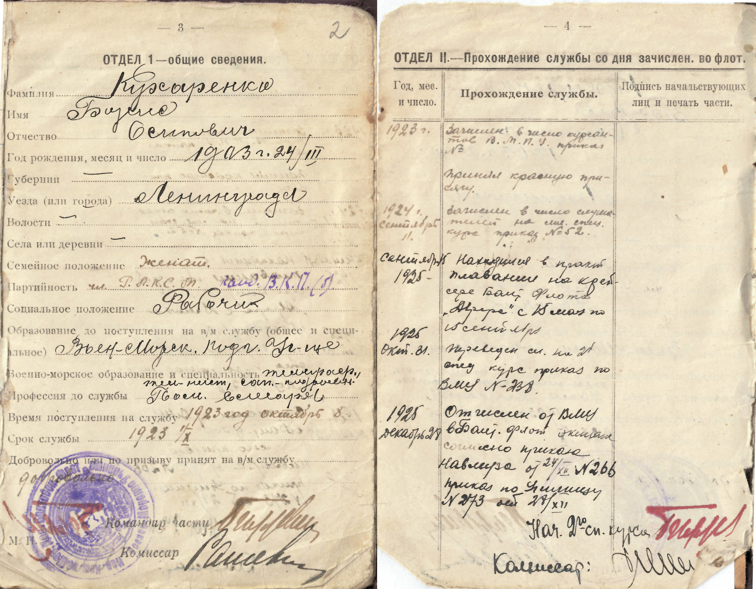 The record of practical sailing on the "Aurora" in 1925 in the service book of the red Navy sailor Boris Kukharenko.